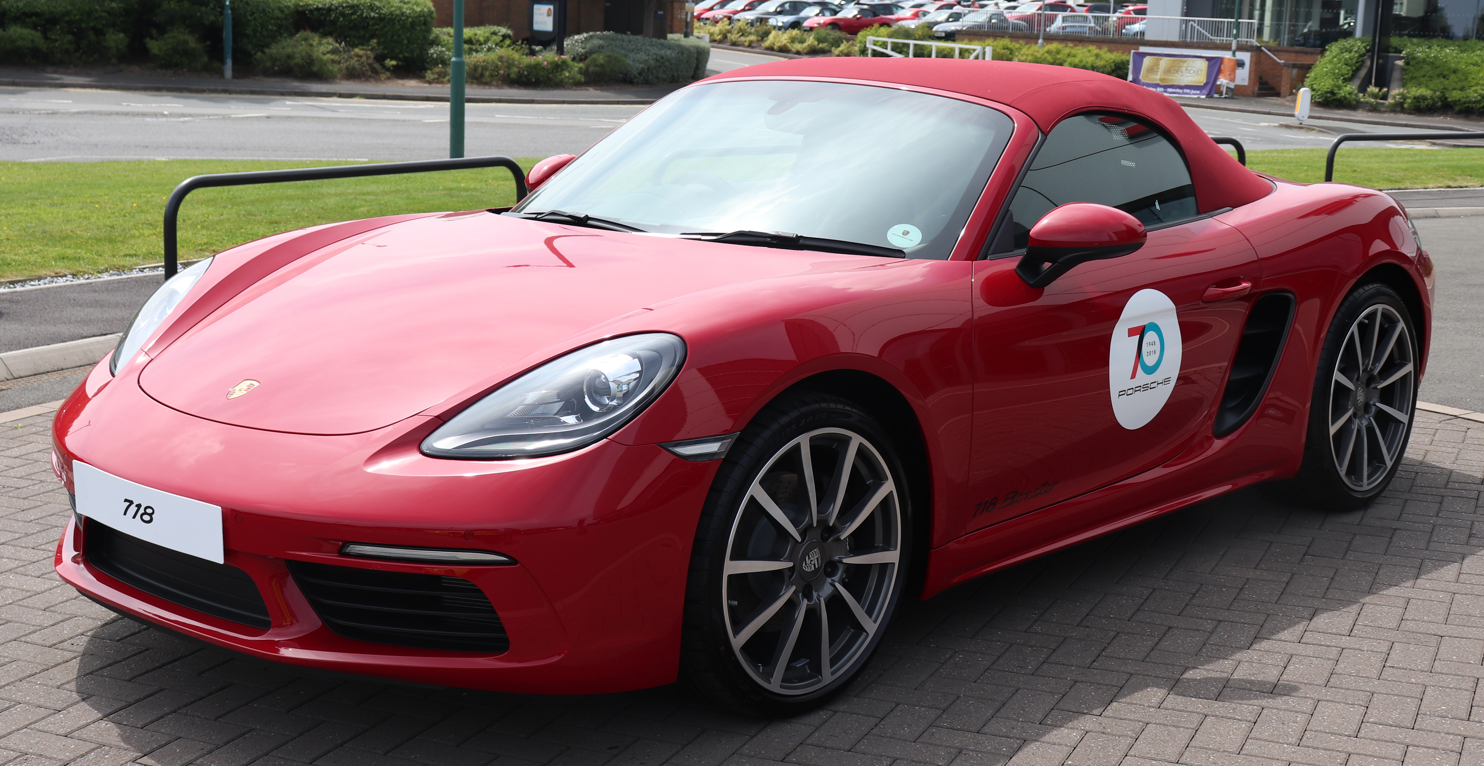 2018 Porsche Cayman 718 Boxster 2.0 Front Taken in Solihull